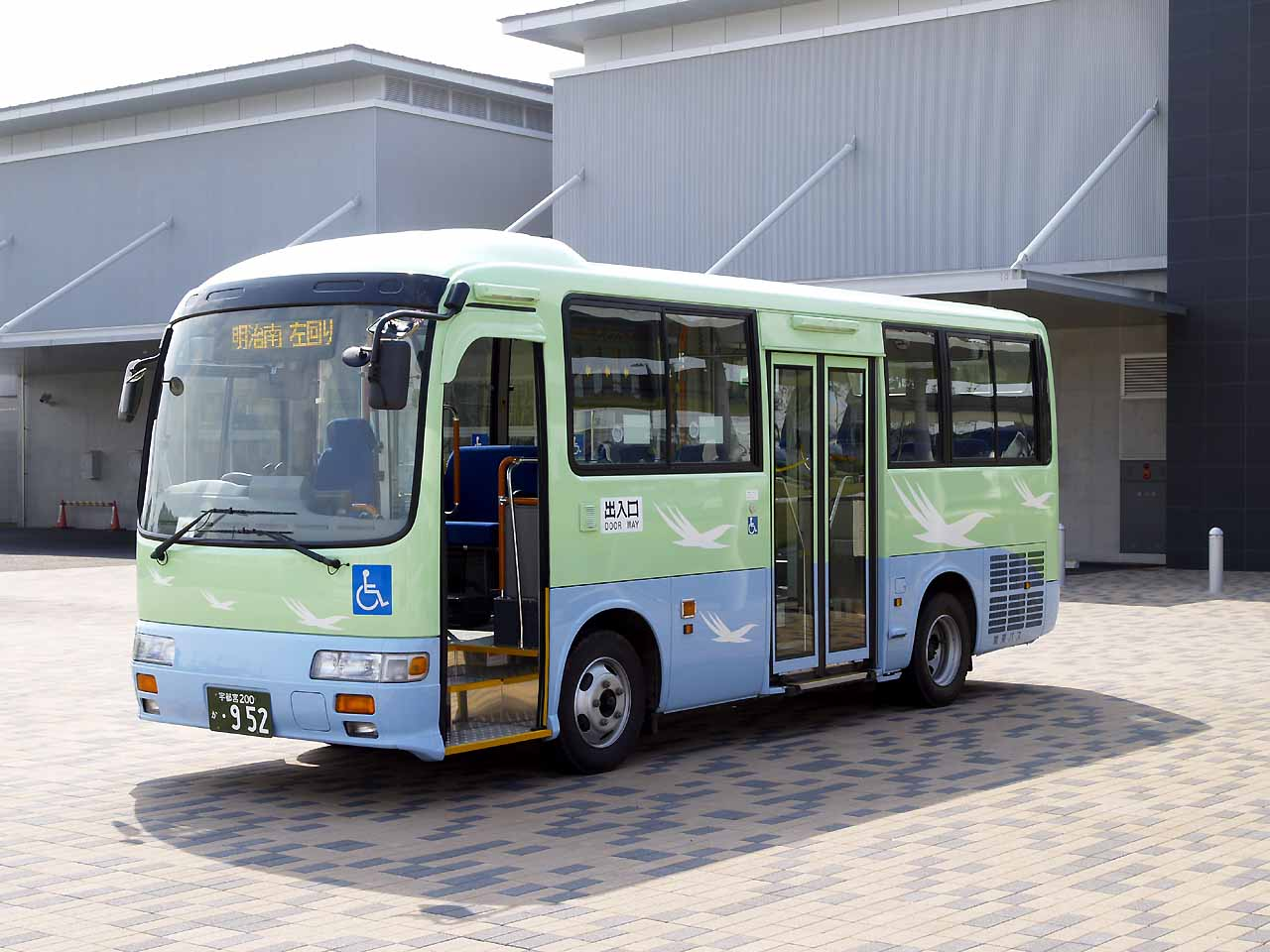 Fleet of Kaminokawa town around bus, for west area. Model: Hino Liesse BDG-RX6JFBA License plate: TGU200 KA-952 Place: Iki-iki plaza (Municipal health welfare center), Kami-Gamou, Kaminokawa town, Tochigi Japan